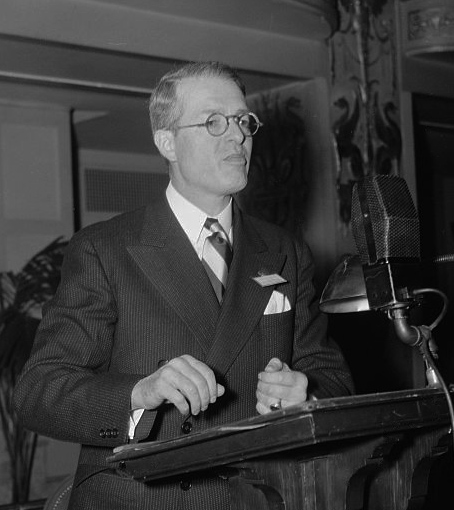 er Halsey Gulick (1892–1993) was an expert on public administration. Caption on Library of Congress photo: Dr. Luther Gulick, Director of the Institute of Public Administration, at Council of State Governments